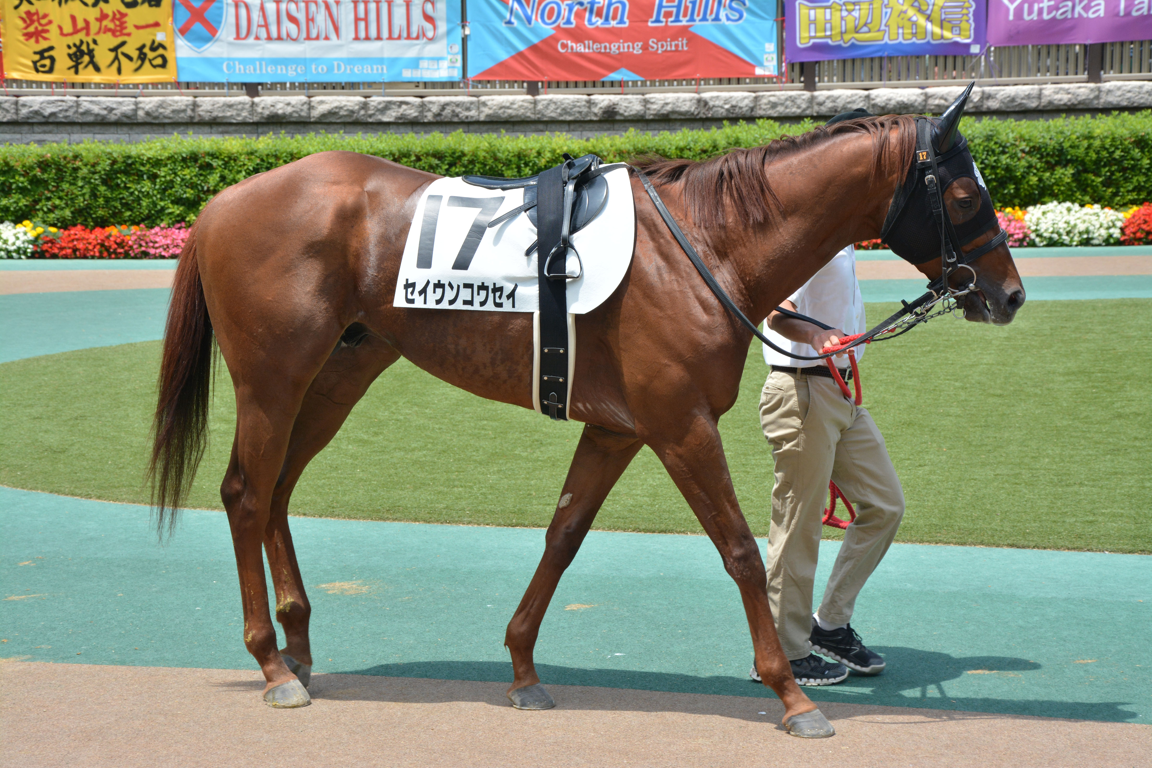 Japanese racehorse Seiun Kosei at Tokyo racecourse(2016-05-29).